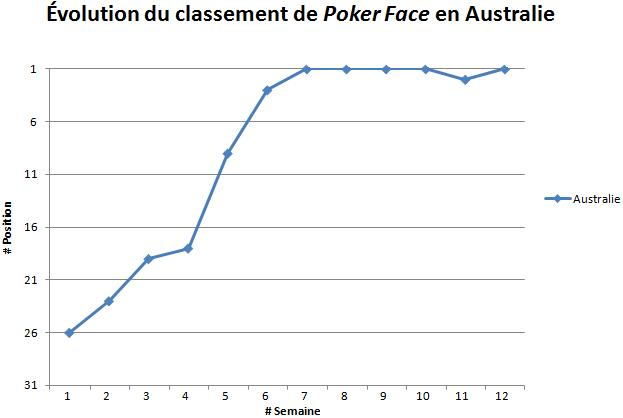 Evolution of Poker Face in Australia.